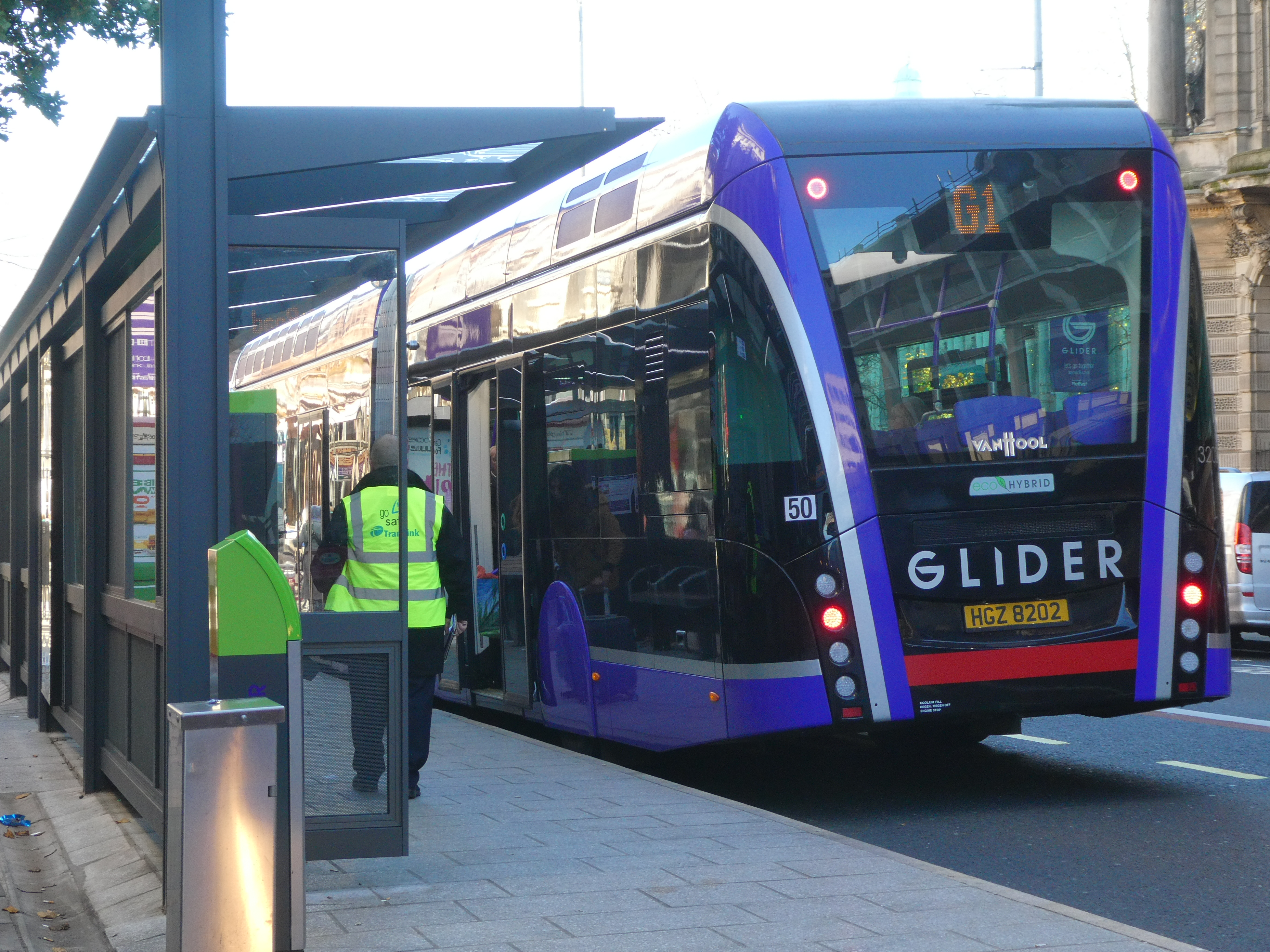 Van Hool Exqui.City bus in Belfast city centre. Translink are marketing these buses under the name 'Glider'